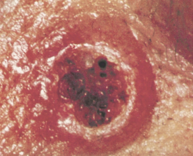 SKIN: CLINICAL MANIFESTATIONS OF EPIDERMAL NEOPLASMS This plate illustrates a keratoacanthoma.